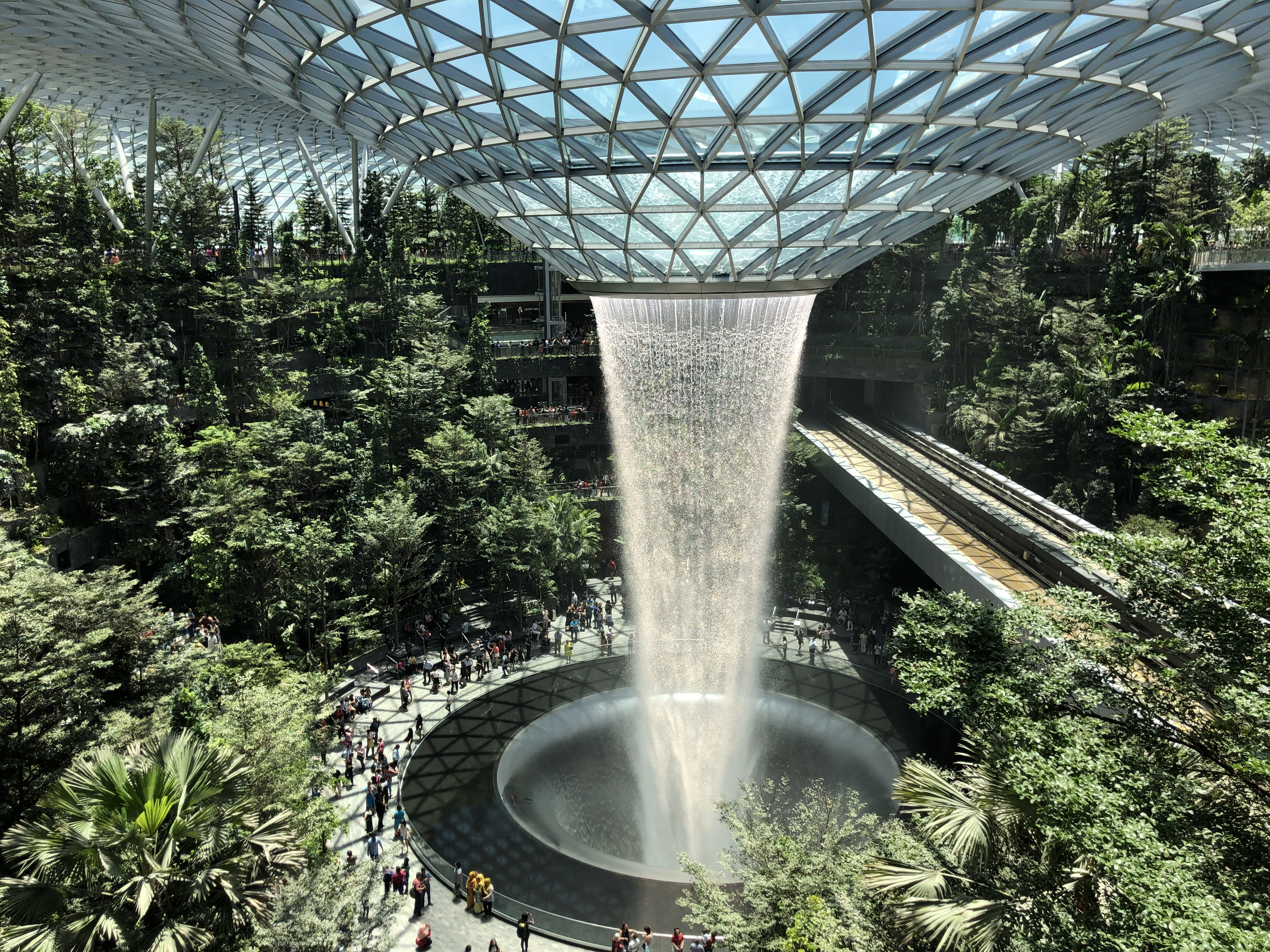 Jewel Changi Airport Rain Vortex